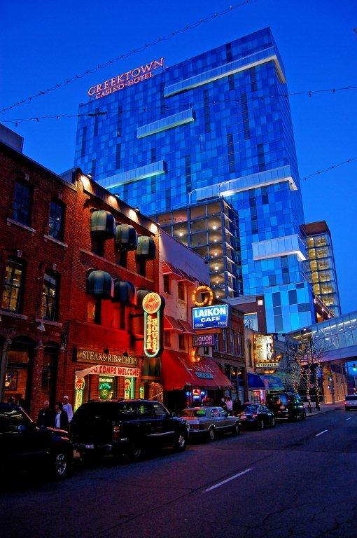 Greektown Hotel Picture